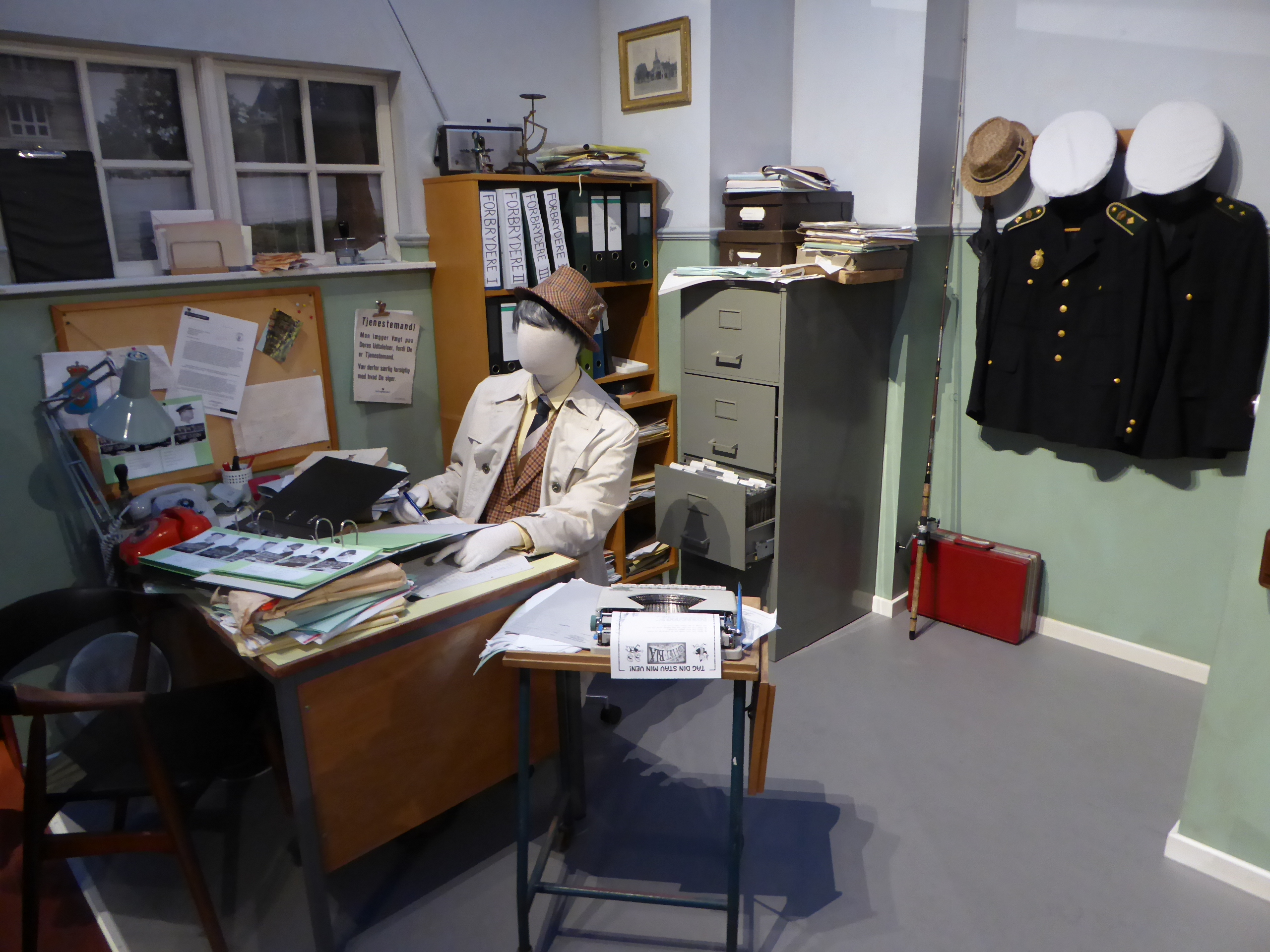 The exhibition Olsen-banden vender hjem at Nordisk Film in Copenhagen with reconstructions of film sets used in the Olsen-banden films. The police officer Jensen in his office.